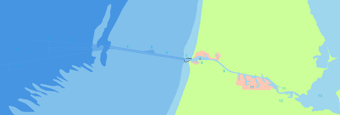 The IJgeul used for ships to reach IJmuiden and Amsterdam.